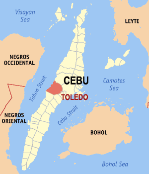 Map of Cebu showing the location of Toledo